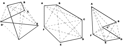 Hexagons